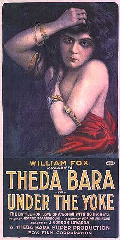 Movie poster for Under the Yoke